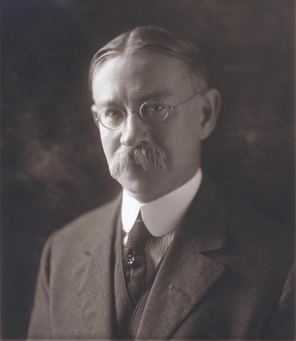 J. Horace McFarland, circa 1900 Credit: Courtesy of the Pennsylvania State Archives